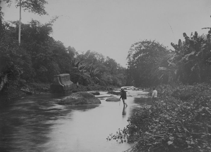 The steamboiler of the ship 'Barouw' thrown inland in the river Kuripan by the tidal-waves caused by the eruption of the volcano Krakatau in 1883, South-Sumatra